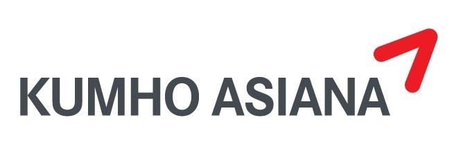 The CI was revised by Kumho Asiana Group in 2017, and Wordmark's color changed from gray to black, improving visibility, and adjusting the size of its trademark wing logo.